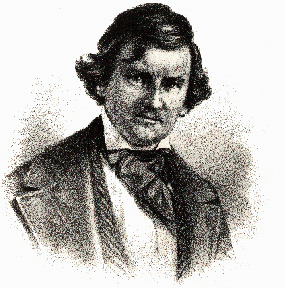 John Bozman Kerr, US Representative from Maryland